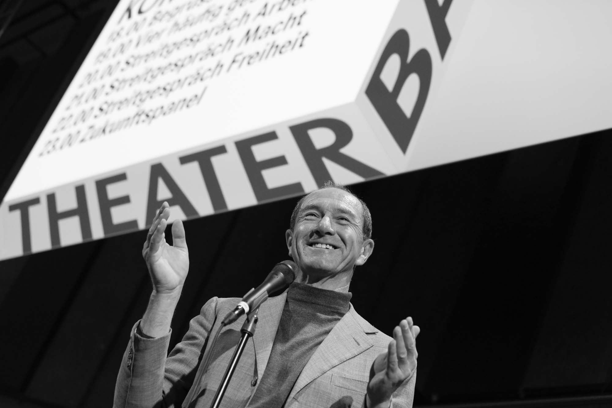 Enno Schmidt is an artist and activist for the Unconditional Basic Income